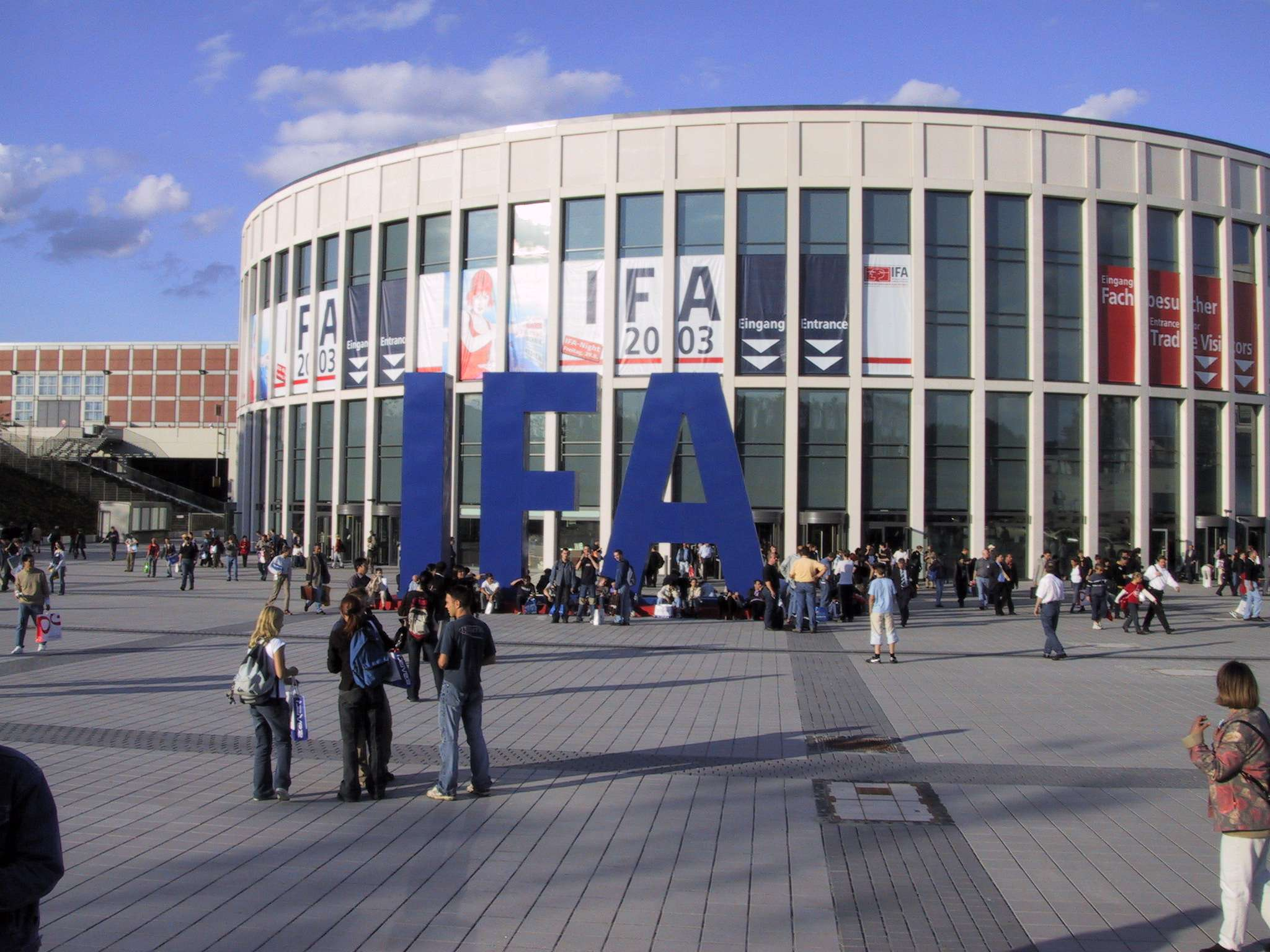 Southern entrance to Berlin's fair ground during the IFA 2003